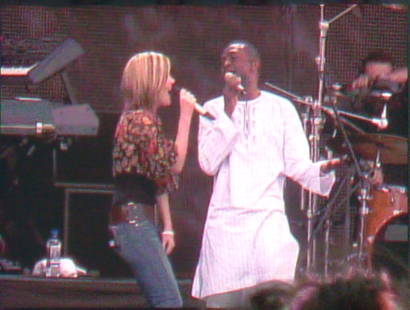 Dido and Youssou N'Dour performing "Seven Seconds" at Live 8 in Hyde Park.